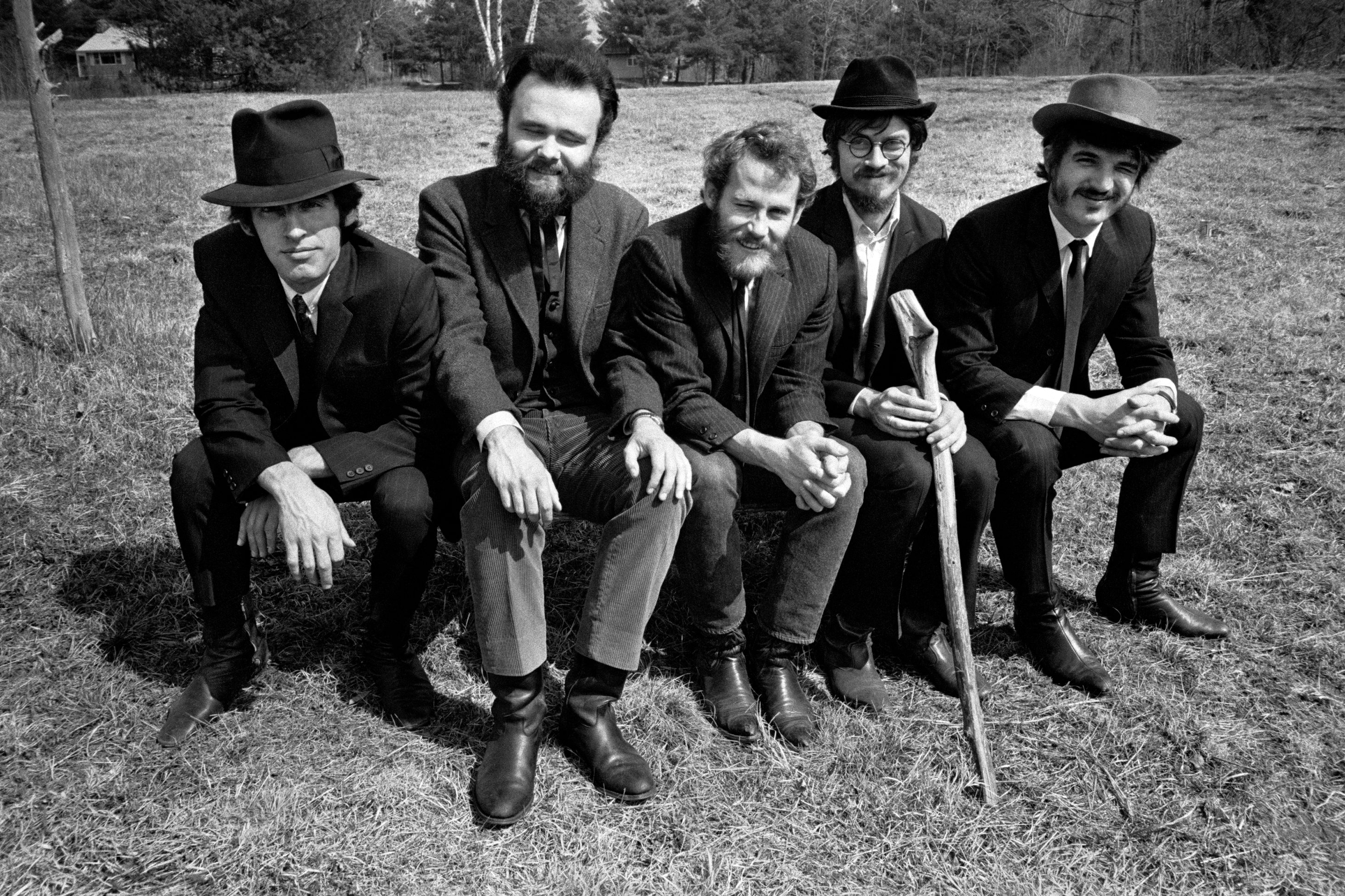 Trade ad for The Band's single "Time To Kill" / "The Shape I'm In".To better adapt it to his respective Wikipedia article, the ad was cropped and cleaned in a graphics editing program. The original can be viewed at the source below.